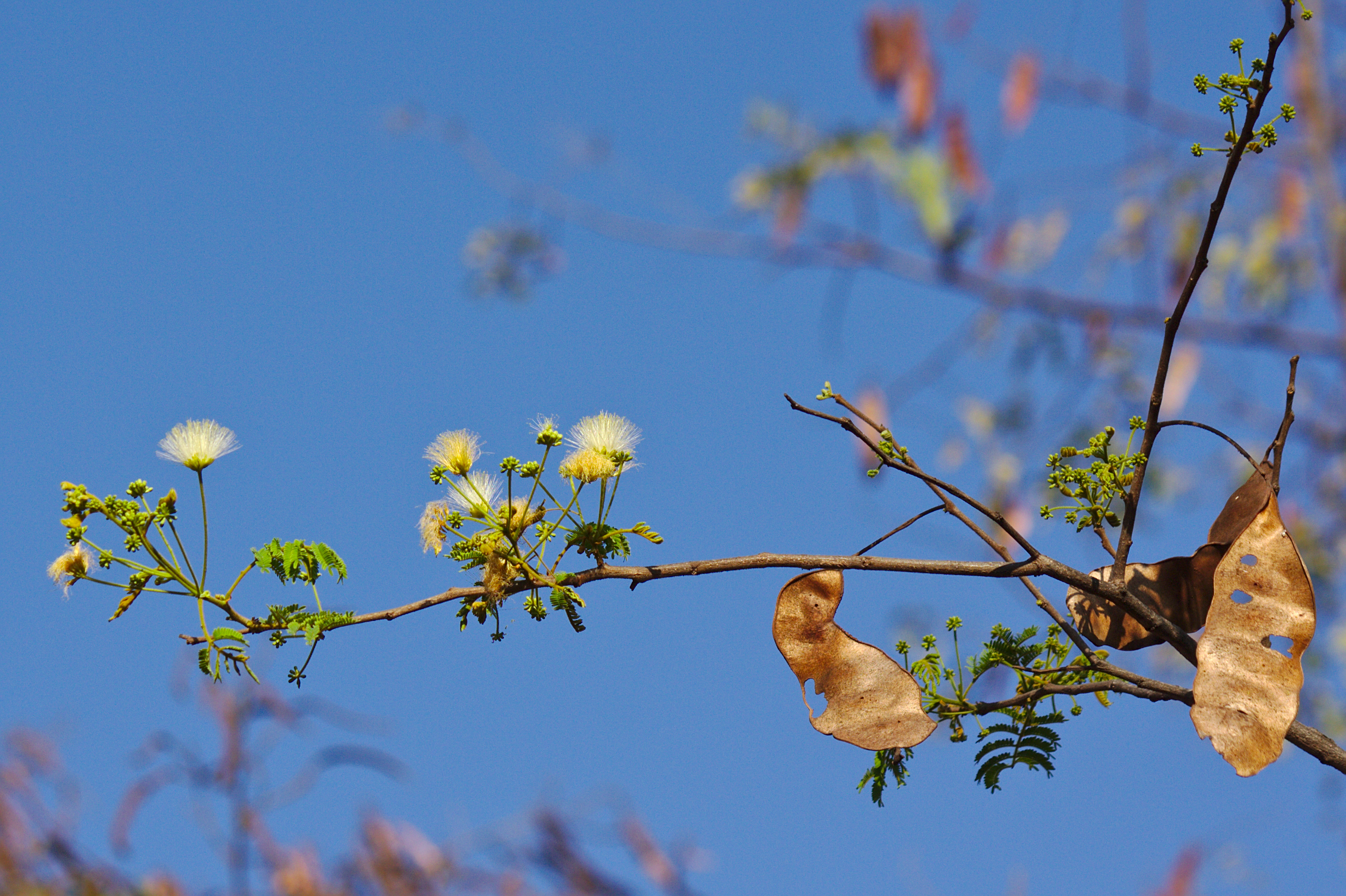 Flowers of Albizia amara from GKVK Botanical Garden, Bengaluru.